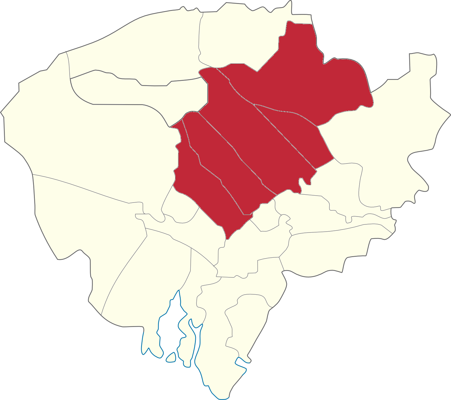 Location of the 3rd Legislative district of Pampanga, Philippines